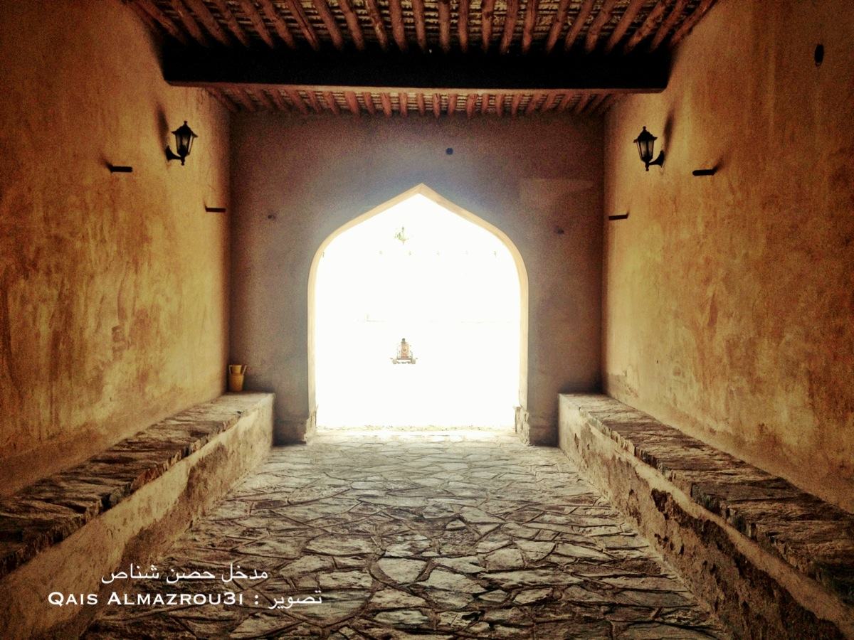 Shinas Fort Entrance